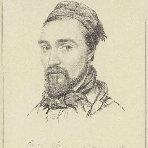 Edouard De Vigne